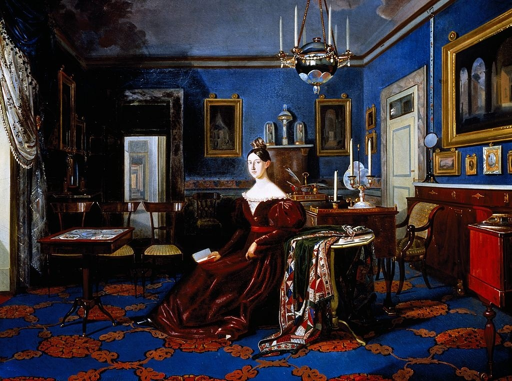 Maria Christina of Savoy (1812-1836), Queen of the Two Sicilies, in her apartments in the Royal Palace of Naples (detail)